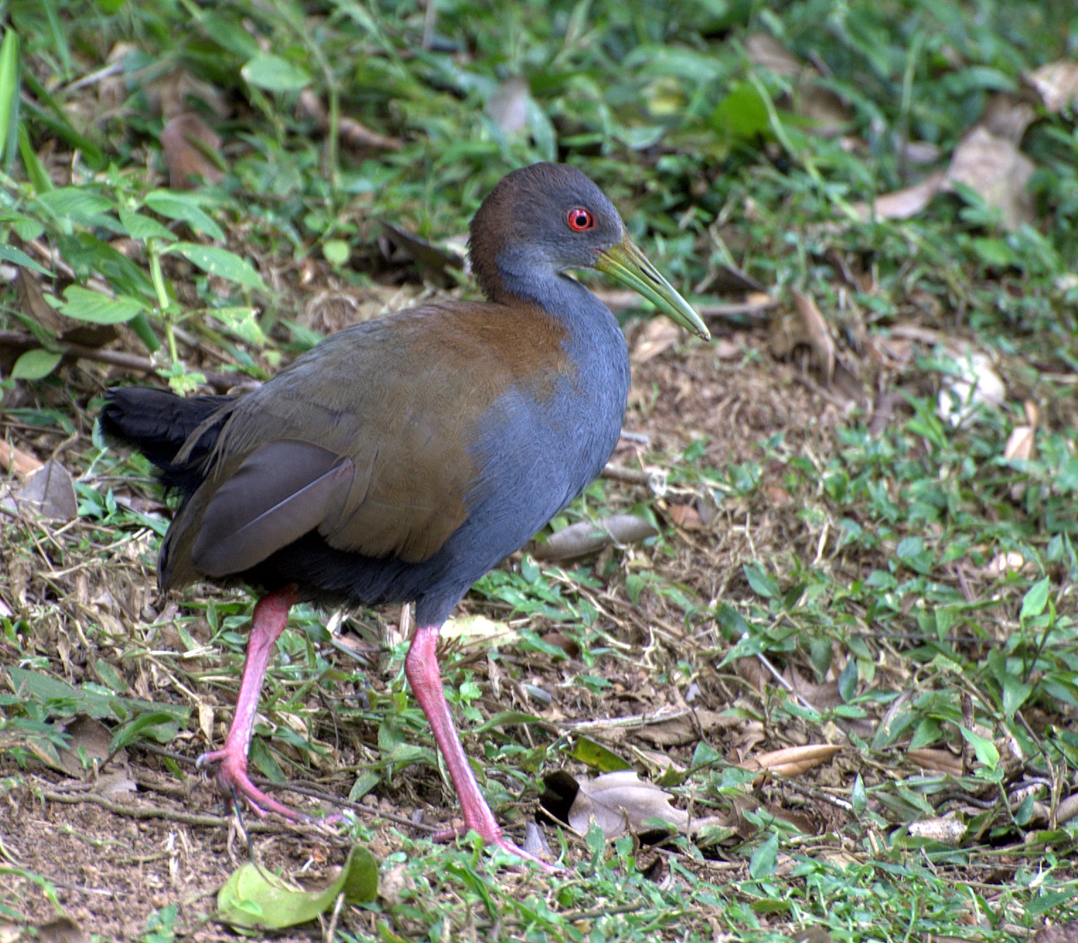 A Slaty-breasted Wood-rail (Aramides saracura)